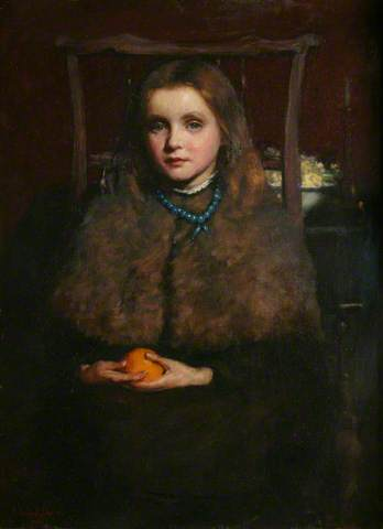 Susan Isabel Dacre (1844 – 1933), Little Annie Rooney, Manchester Art Galleries